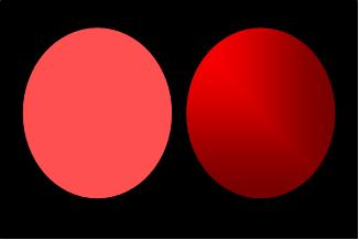 The distribution of light and shadow can create the illusion of volume.